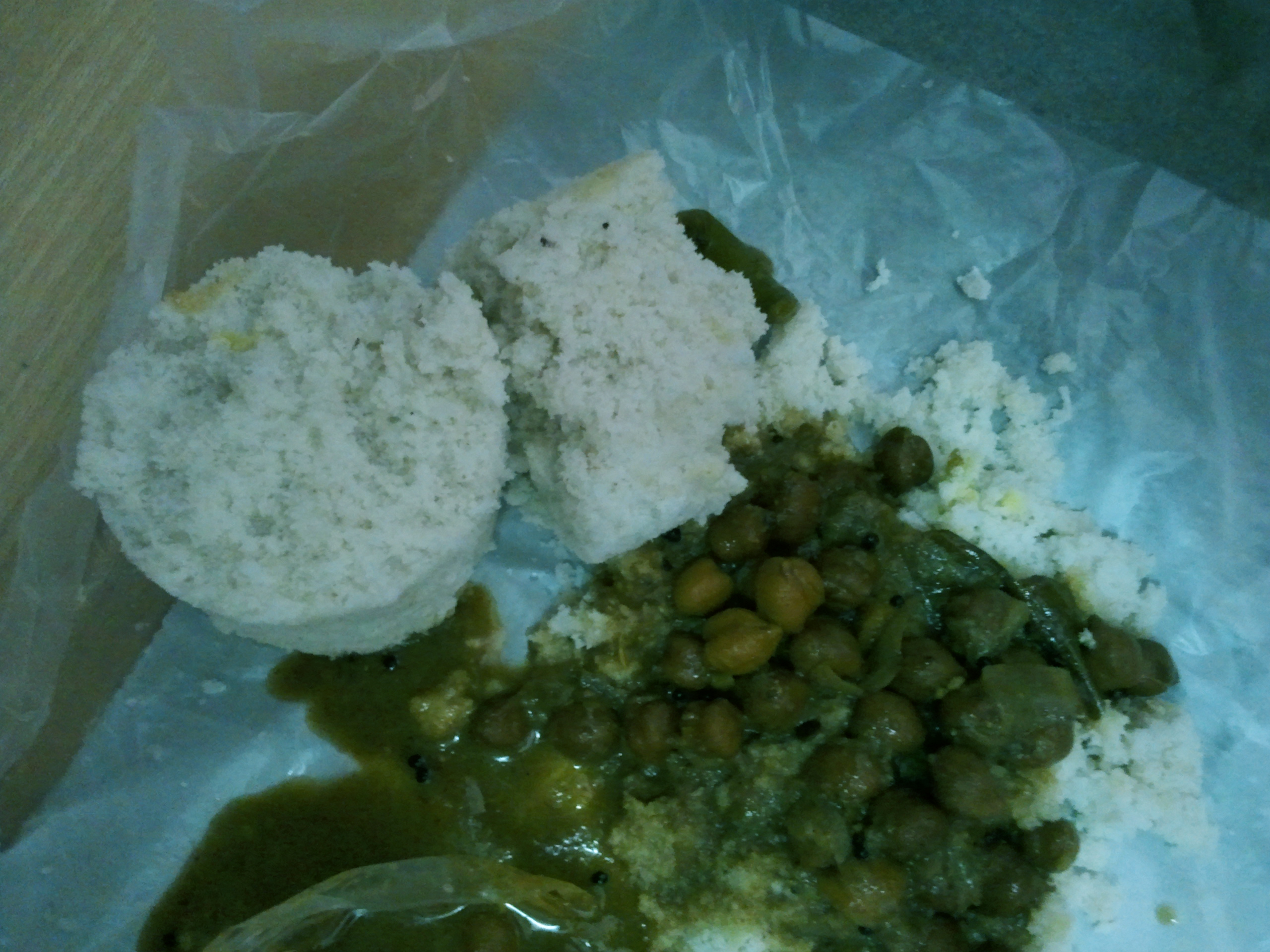 Kadalakkary with puttu